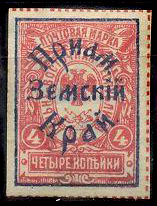 Stamp of the Priamursky Zemstvo territory, 1922